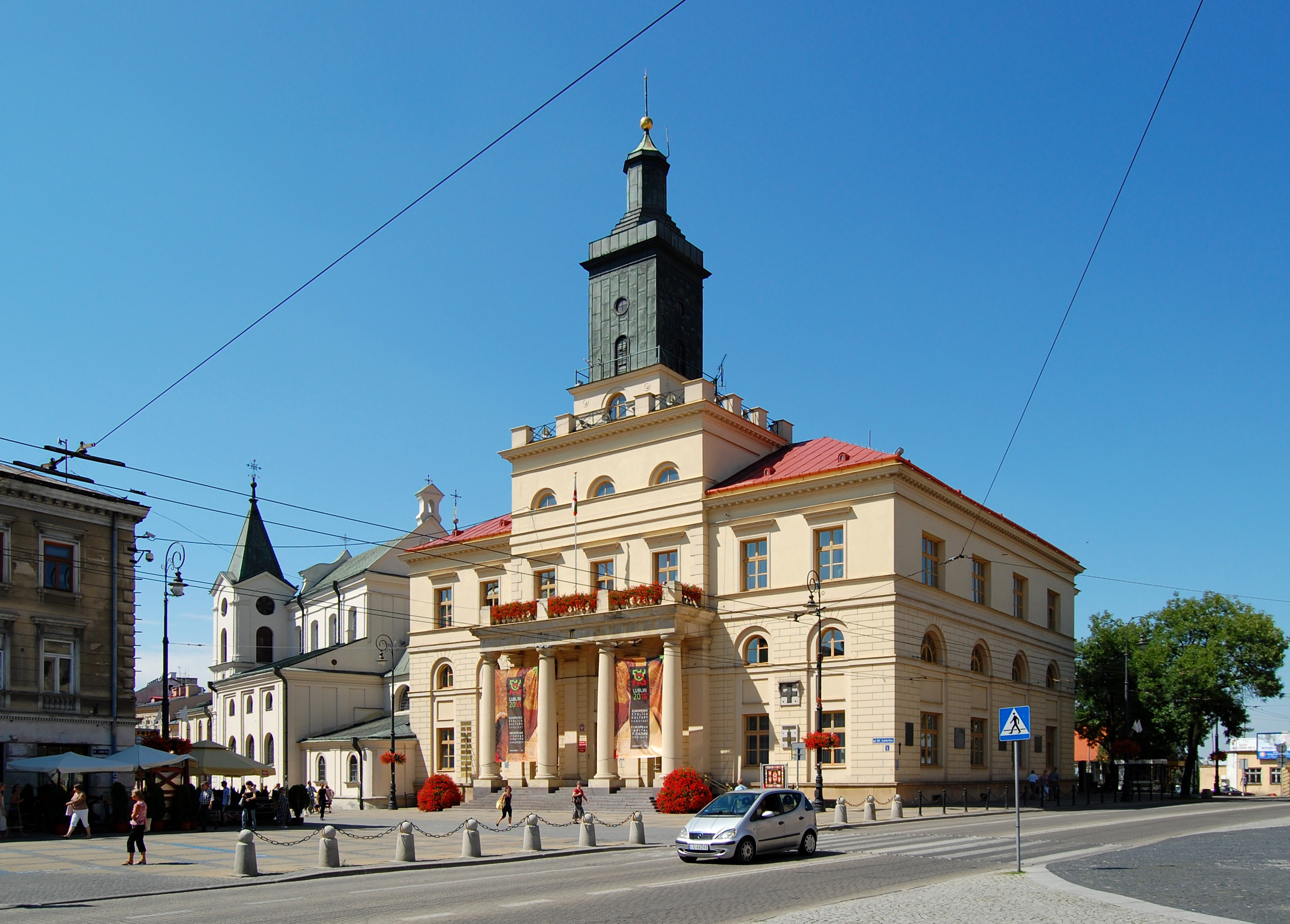 New Town Hall, Lublin, Poland.